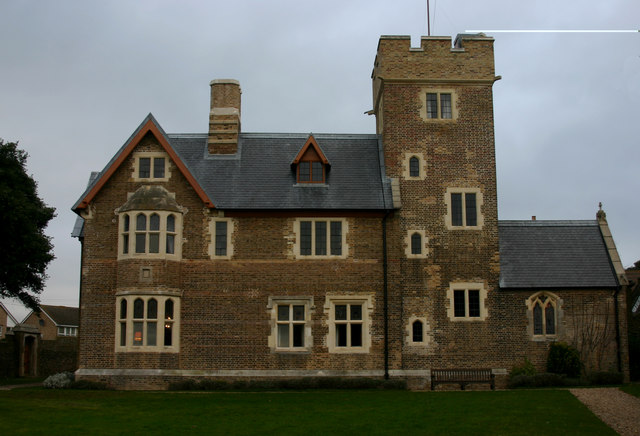 'The Grange', Ramsgate (south elevation)